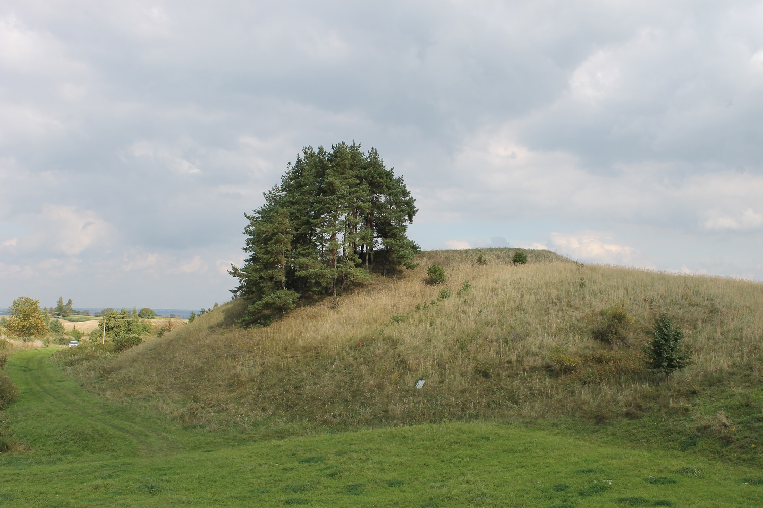 Elveriškė hillfort, Lazdijai district, Lithuania